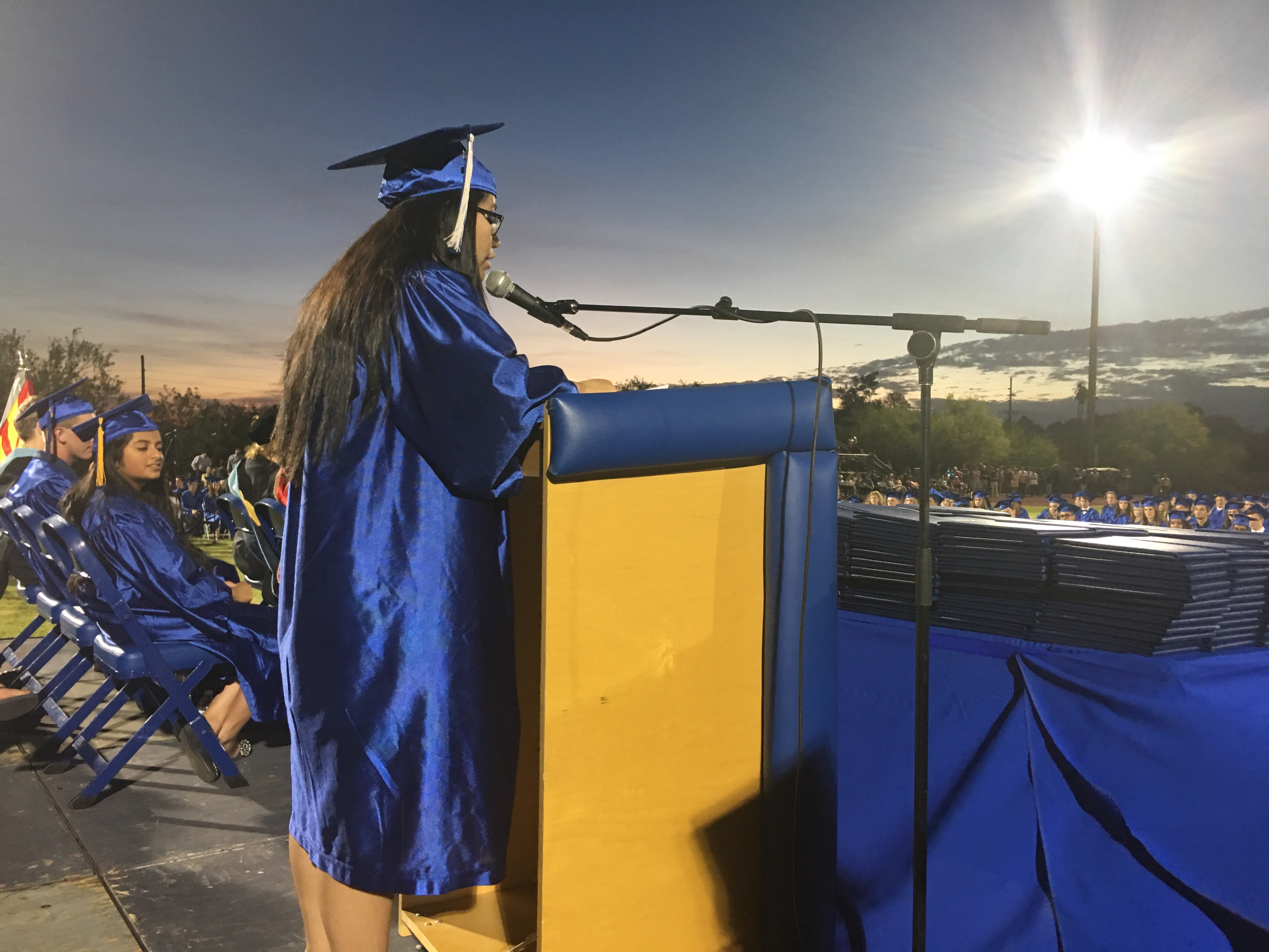 A student speaks at the CFHS 2017 graduation ceremony.